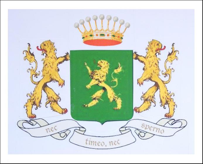 Coat of arms Count O'Connor de Kerry